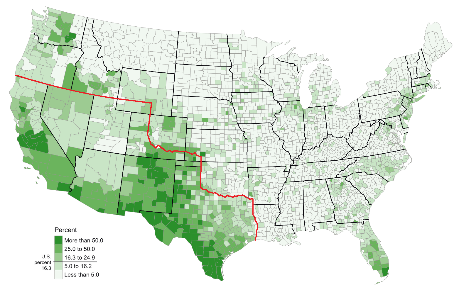 used these two maps